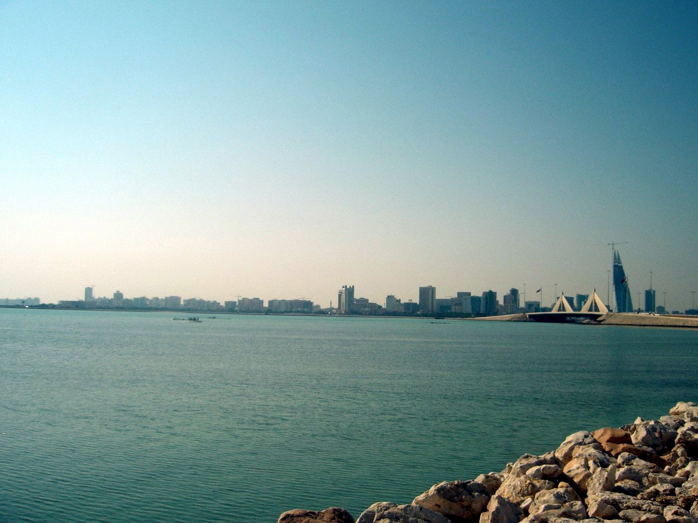 Photo: Soman